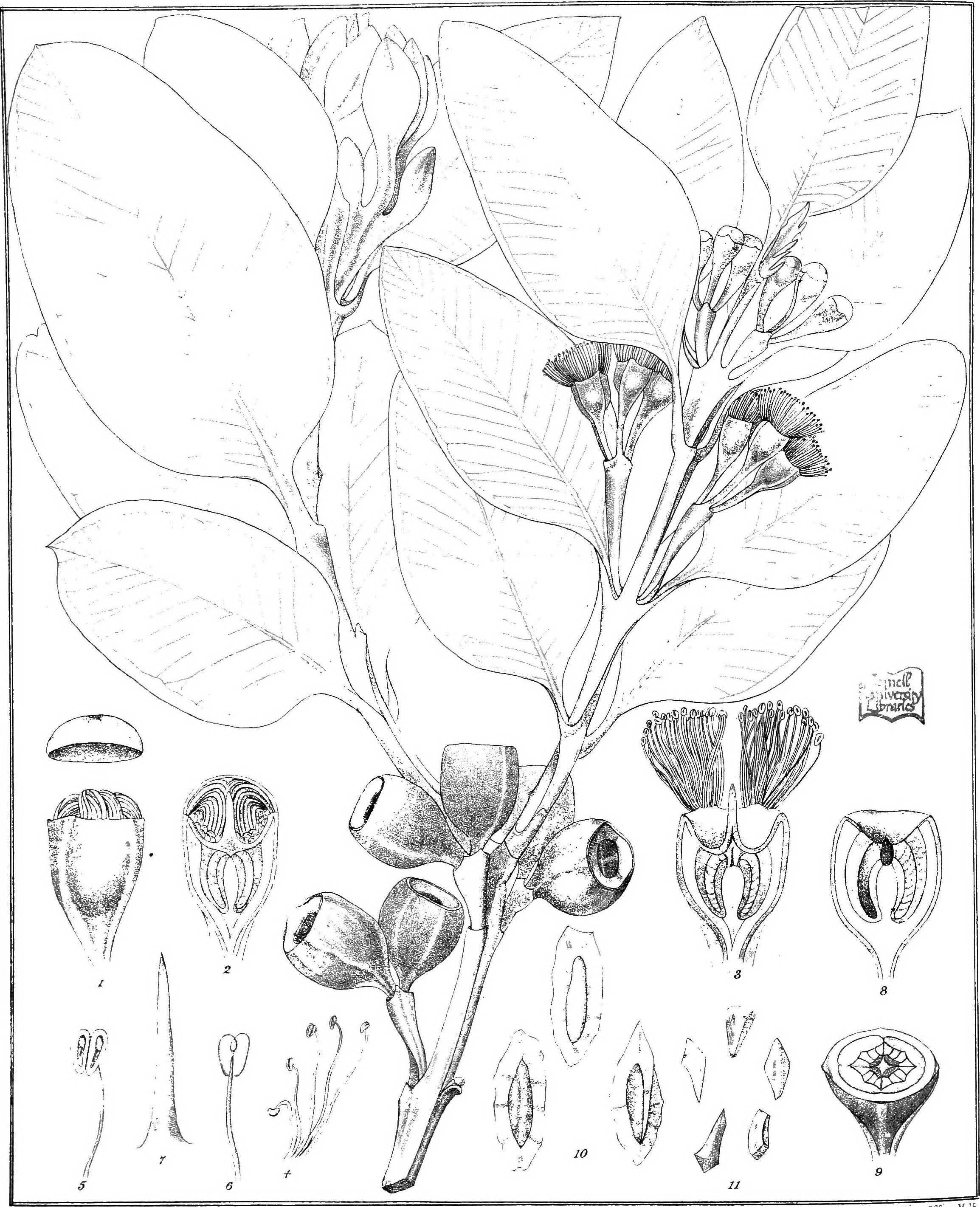 Title: Eucalyptographia. A descriptive atlas of the eucalypts of Australia and the adjoining islands; Year: 1879 (1870s) Authors: Mueller, Ferdinand von, 1825-1896 Subjects: Eucalyptus; Botany Publisher: Melbourne, J. Ferres, Govt. Print; (etc. ,etc. ) Text Appearing Before Image: ' Text Appearing After Image: Toil i-i ri:vc.ei«: i:? Liih F.-.-M". iire;-::"t SlsB.^ lilho jO'/ Prir-tin^ Office Moli. li(gDJl;)c)1img tete;(£)ML, FzM